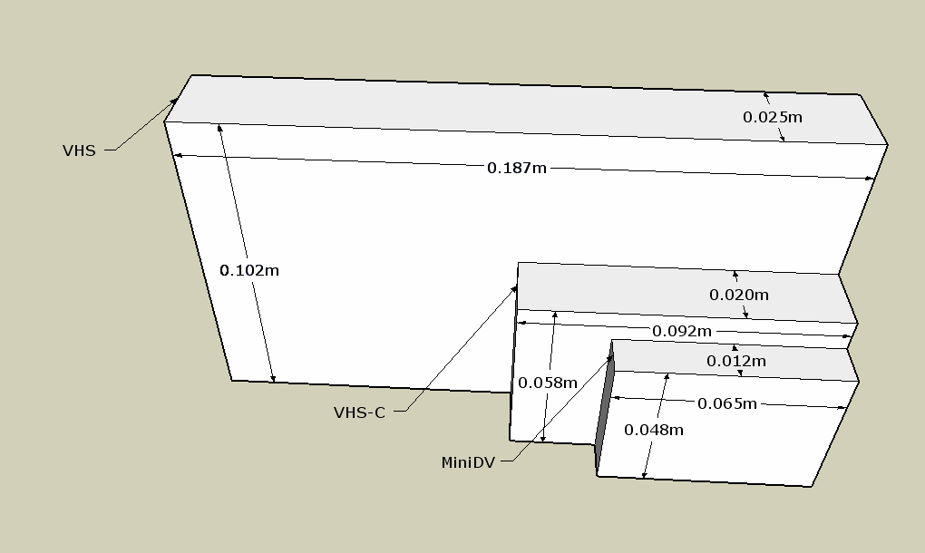 Created by me in Google Sketchup. Designed for the VHS, VHS-C, and MiniDV articles on Wikipedia to provide a size comparison between the formats.